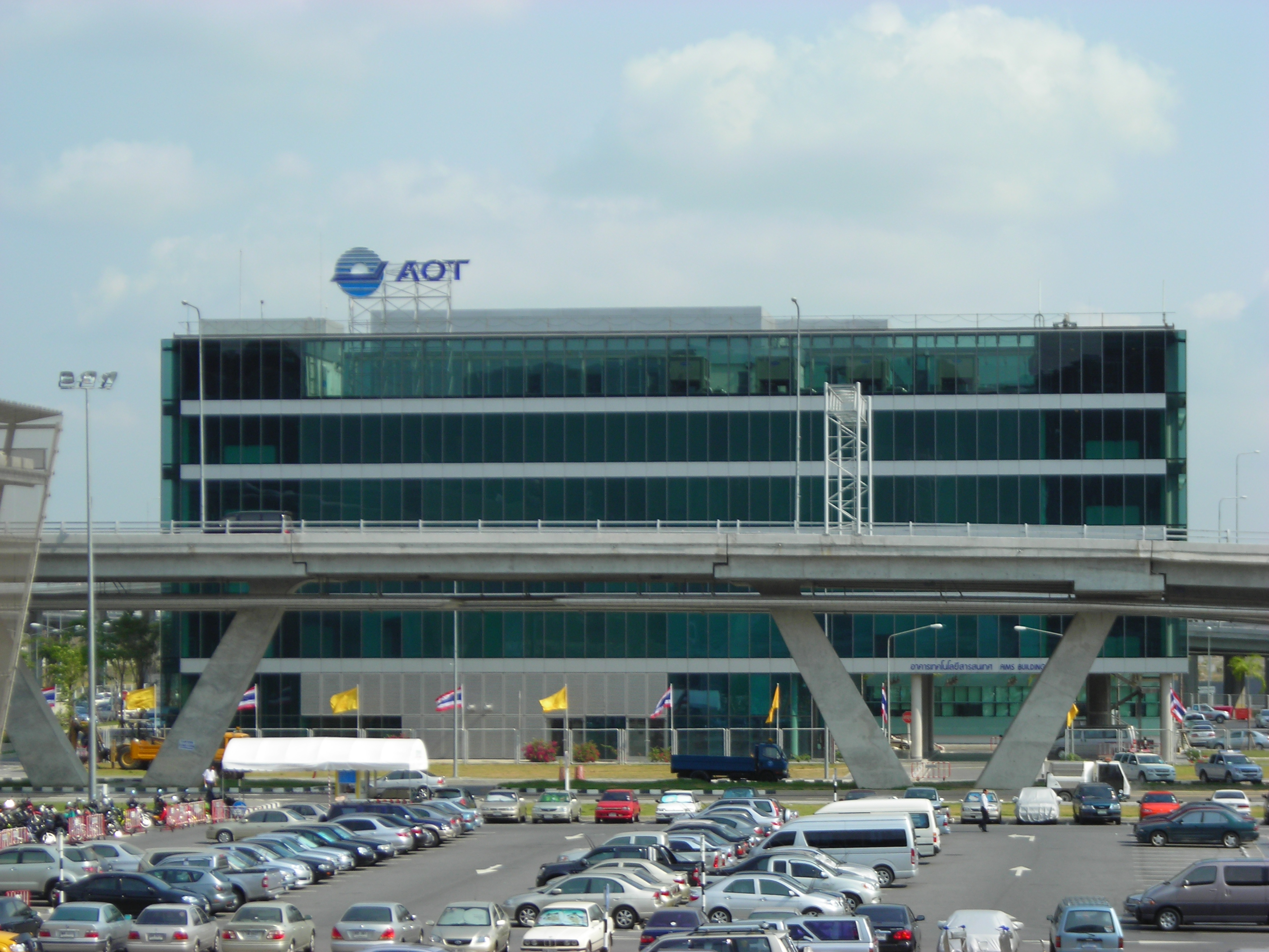 Airports of Thailand PCL AIMS (Airport Information Management System) building at Suvarnabhumi International Airport near Bangkok.